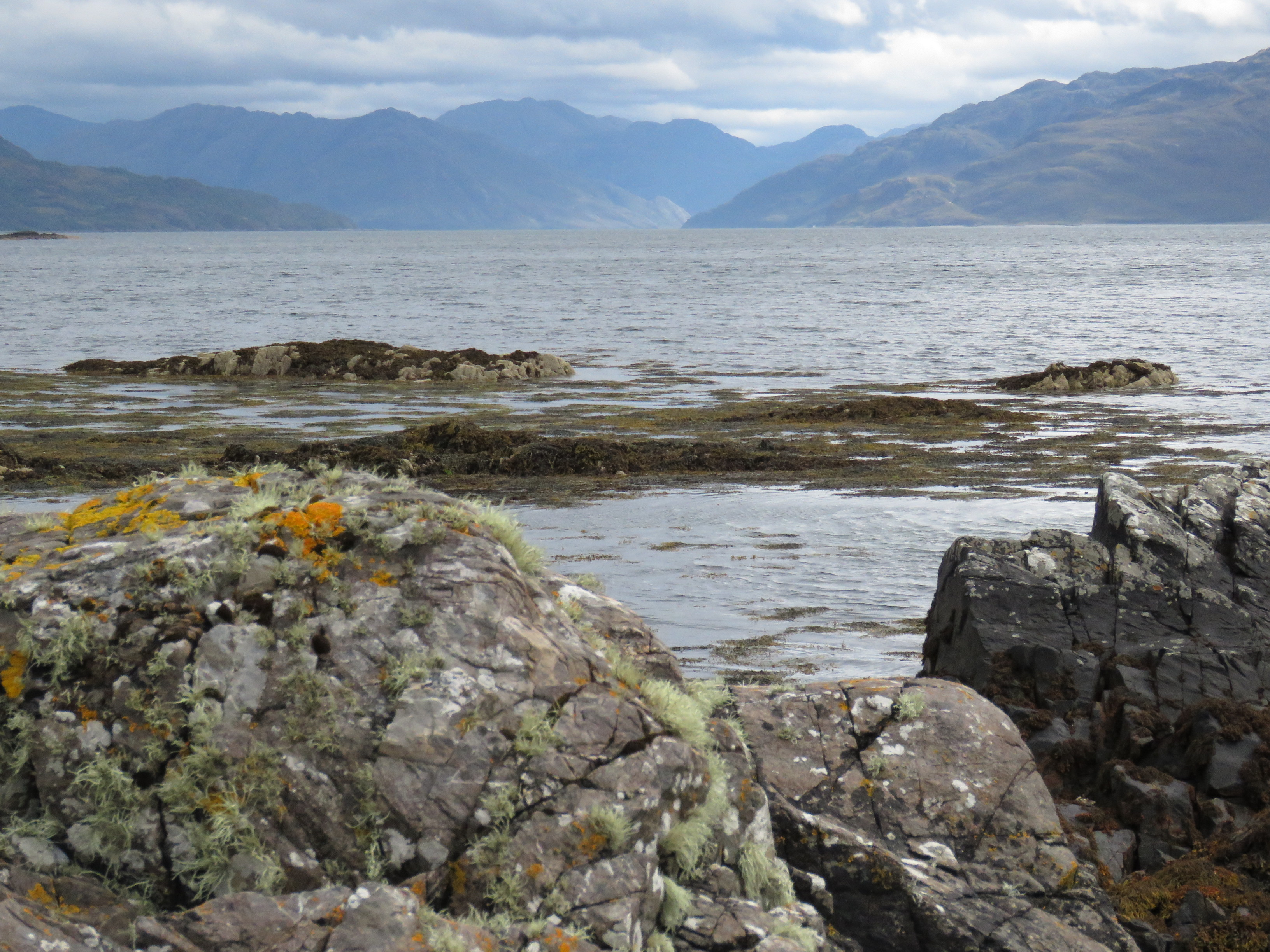 Loch na Cairidh, Skye, Outer Hebrides, Scotland